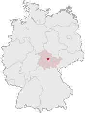 Position of Erfurt in Germany.